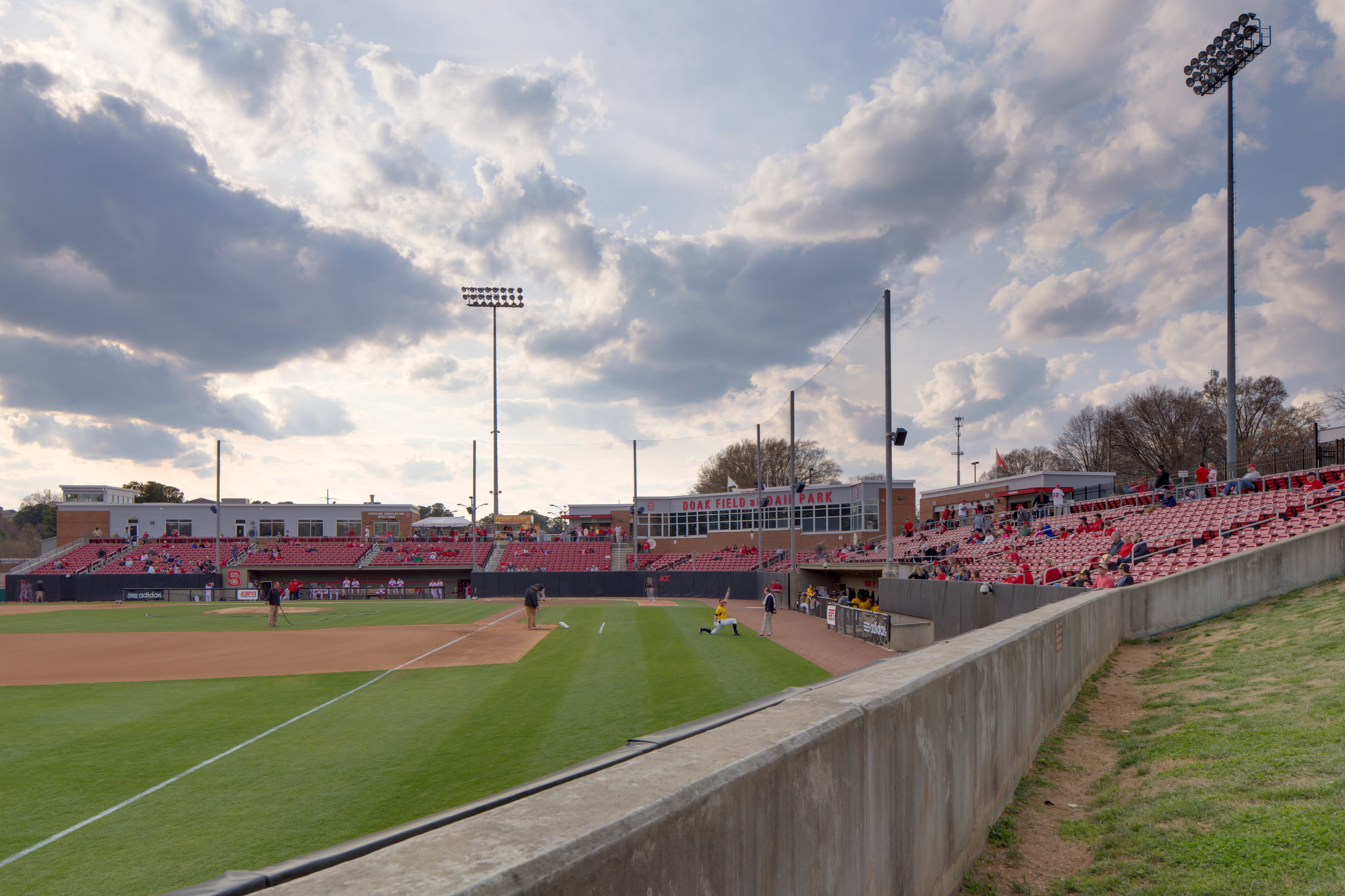 North Carolina State University's baseball stadium, Doak Field. Taken using a Canon 6D with Canon TS-E 24mm f/3.5L II. 4 images combined using EnfuseGUI.